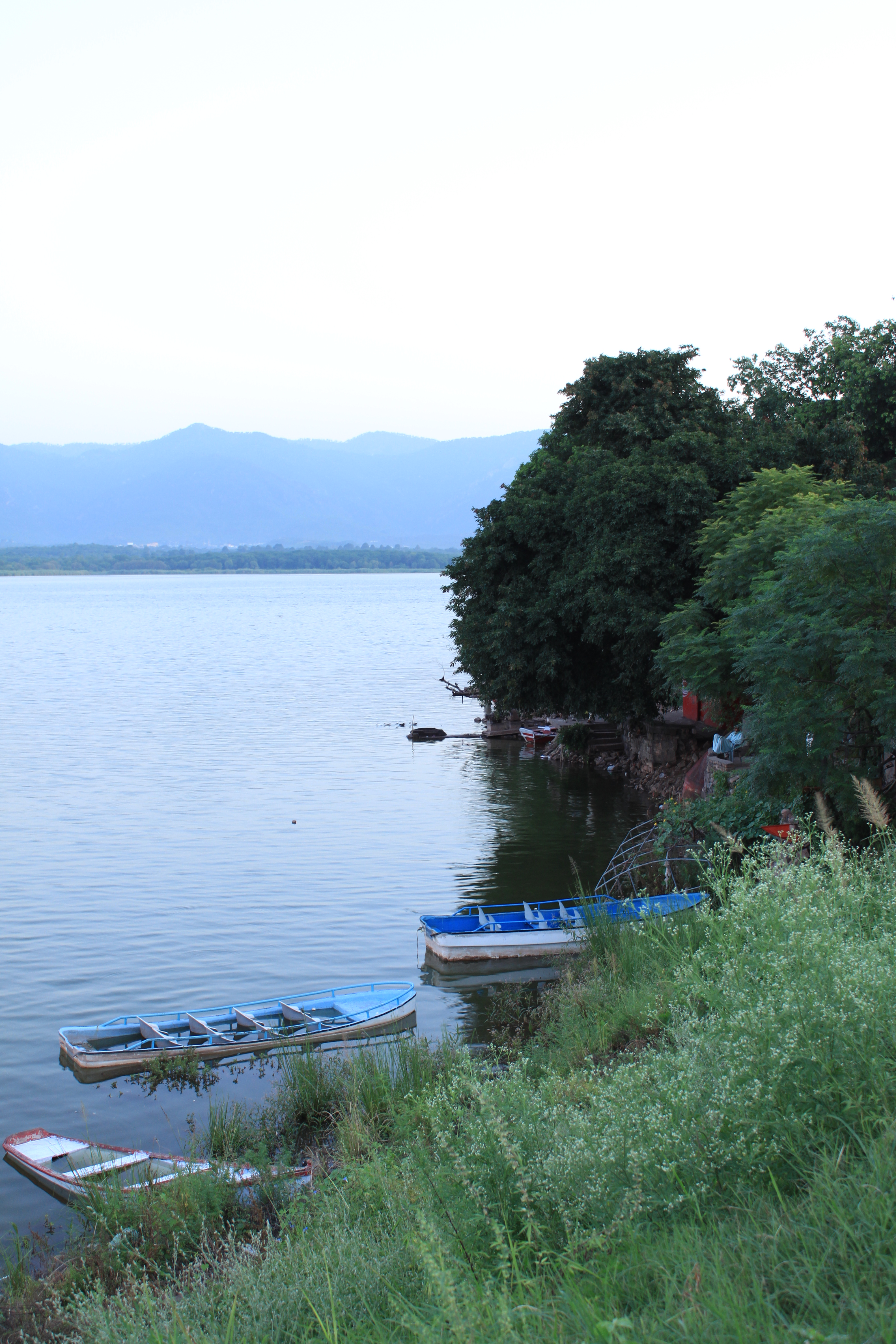 Rawal lake, boats